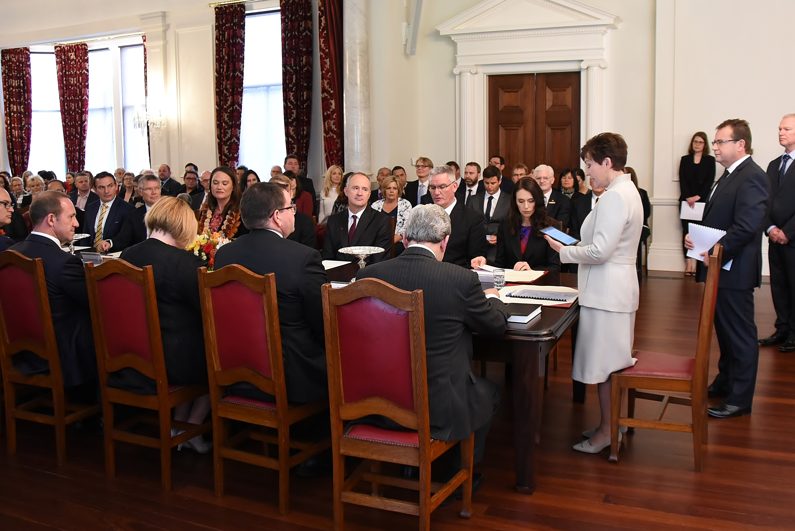 Dame Patsy Reddy (Governor-General) welcomes the soon-to-be Ministers and Under-Secretaries